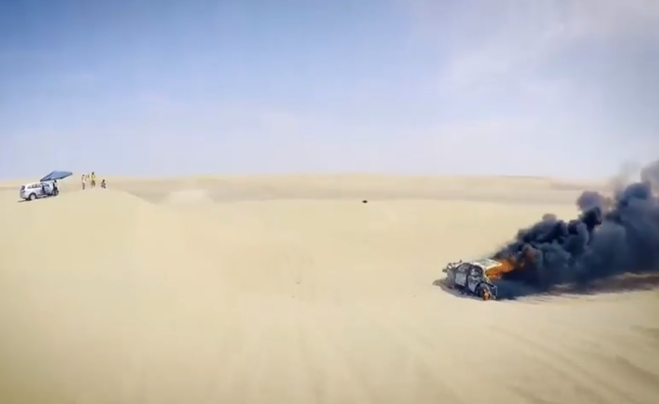 Dakar 2018. Perú. Toyota of Alicia Reina burning.